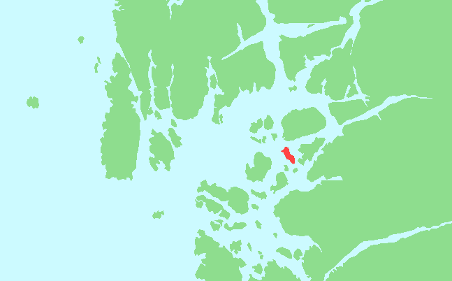 Locator map of Halsnøy, Rogaland, Norway